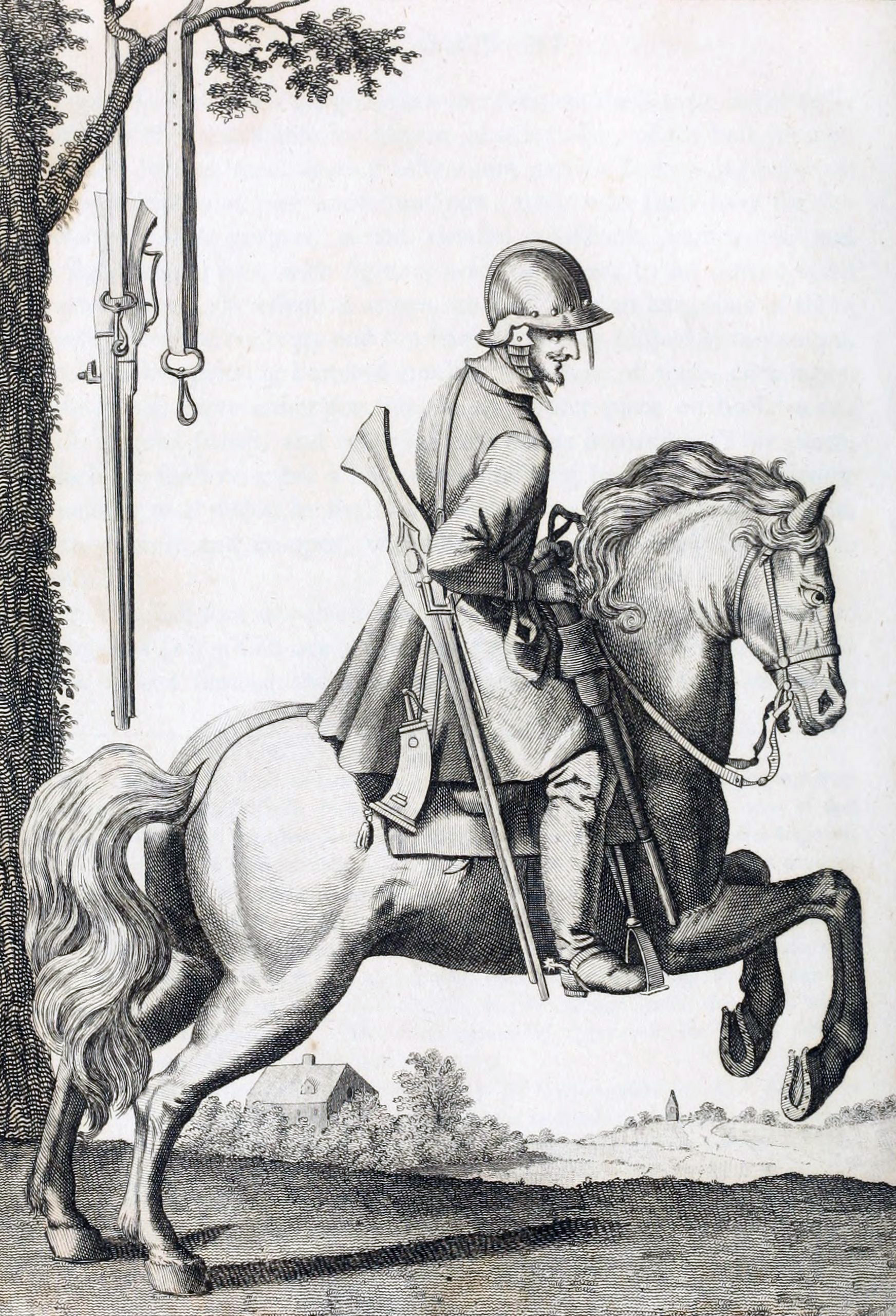 Ancient Dragoon from Military Antiquities Respecting a History of The English Army from Conquest to the Present Time by Francis Grose.